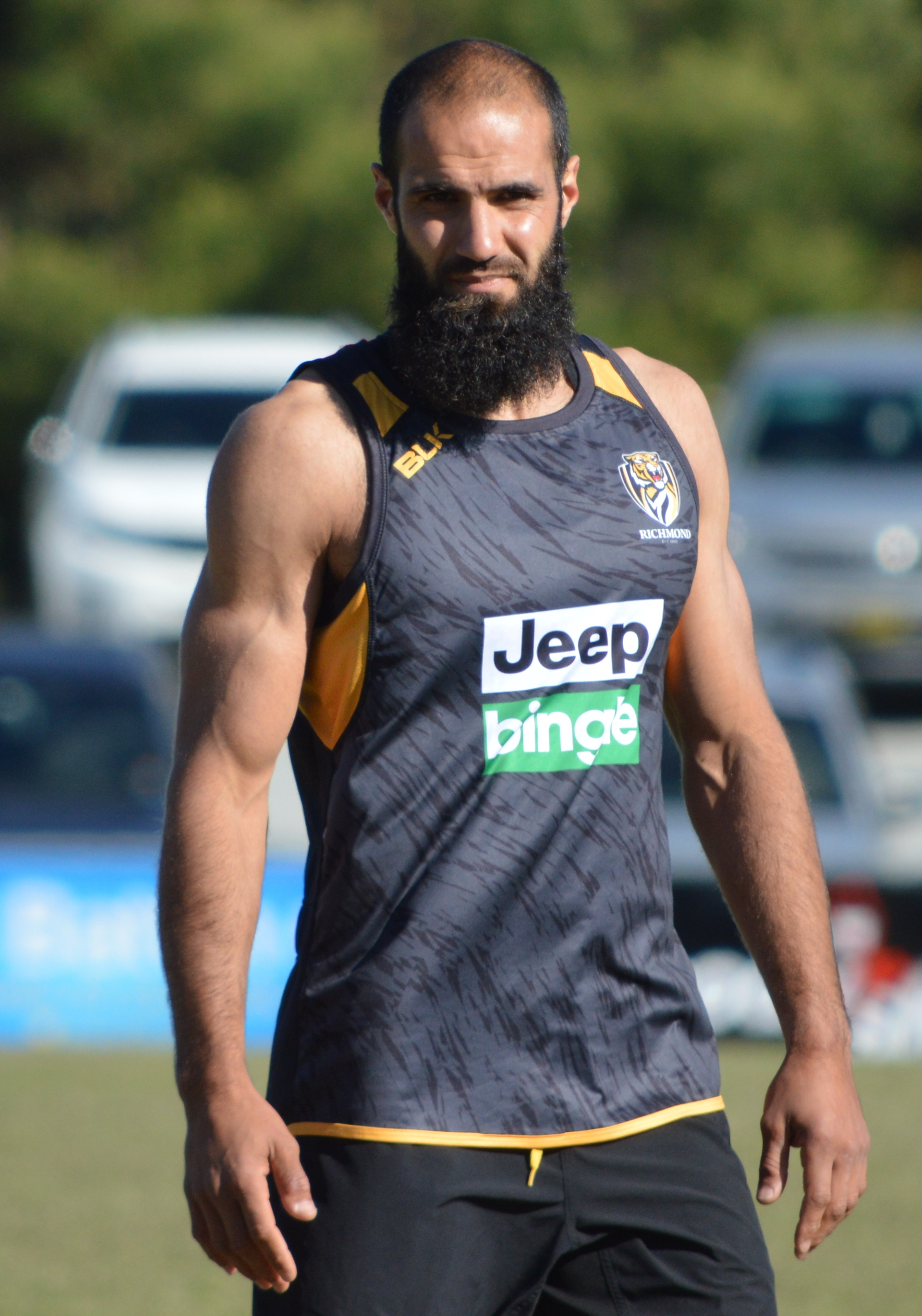 Bachar Houli at the Richmond Football Club's family day in Beaconsfield, Victoria on 20 December 2016.